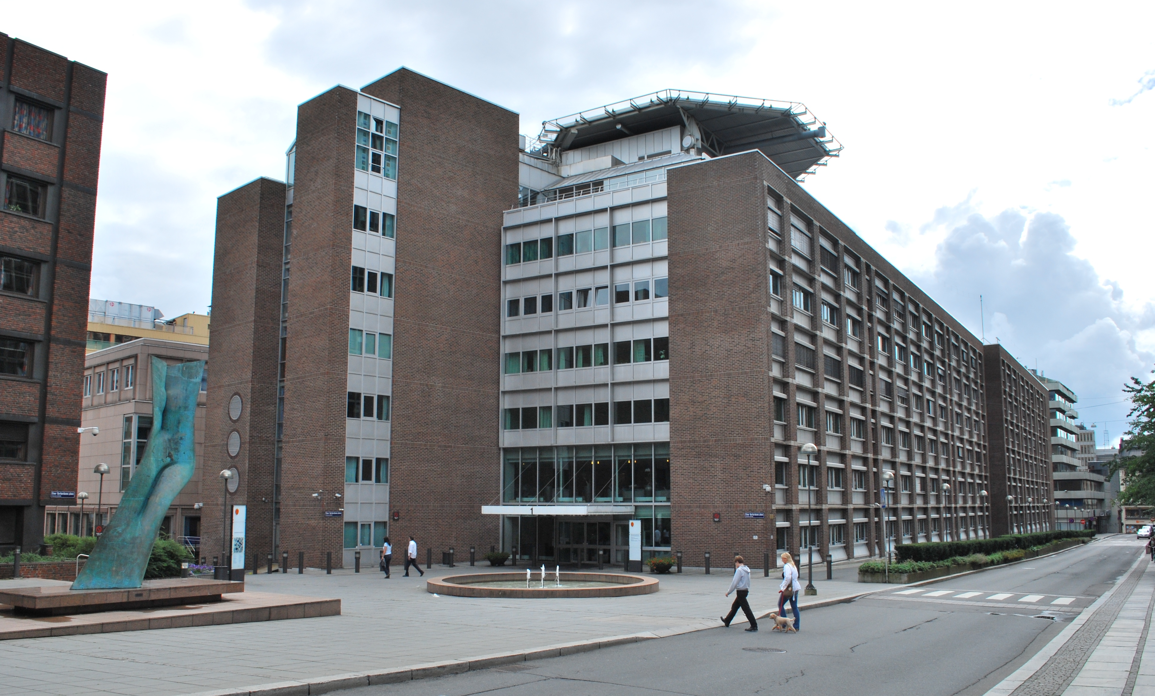 Building R4, Regjeringskvartalet (Central Government Buildings), Grubbegata , Oslo